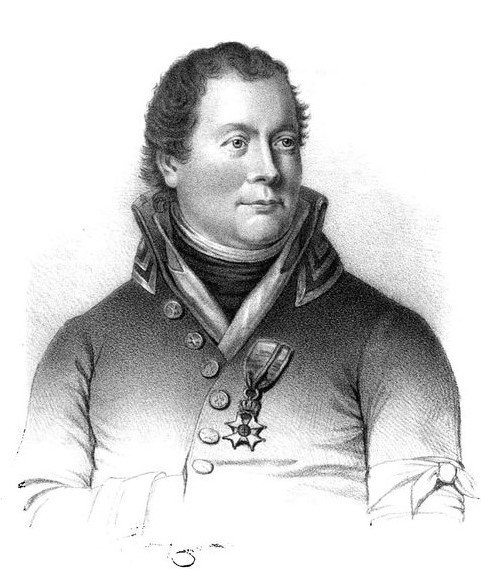 Georg Adlersparre (1760-1835), lithography by Johan Cardon (1802-1878).